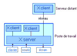 X window client server